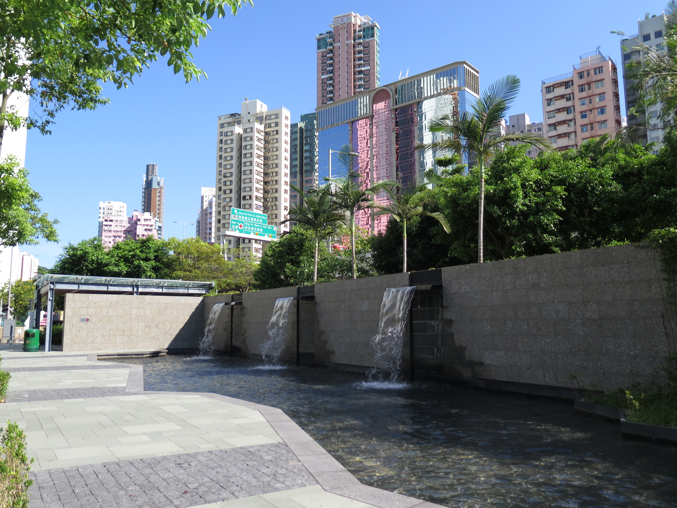 Aldrich Bay Park